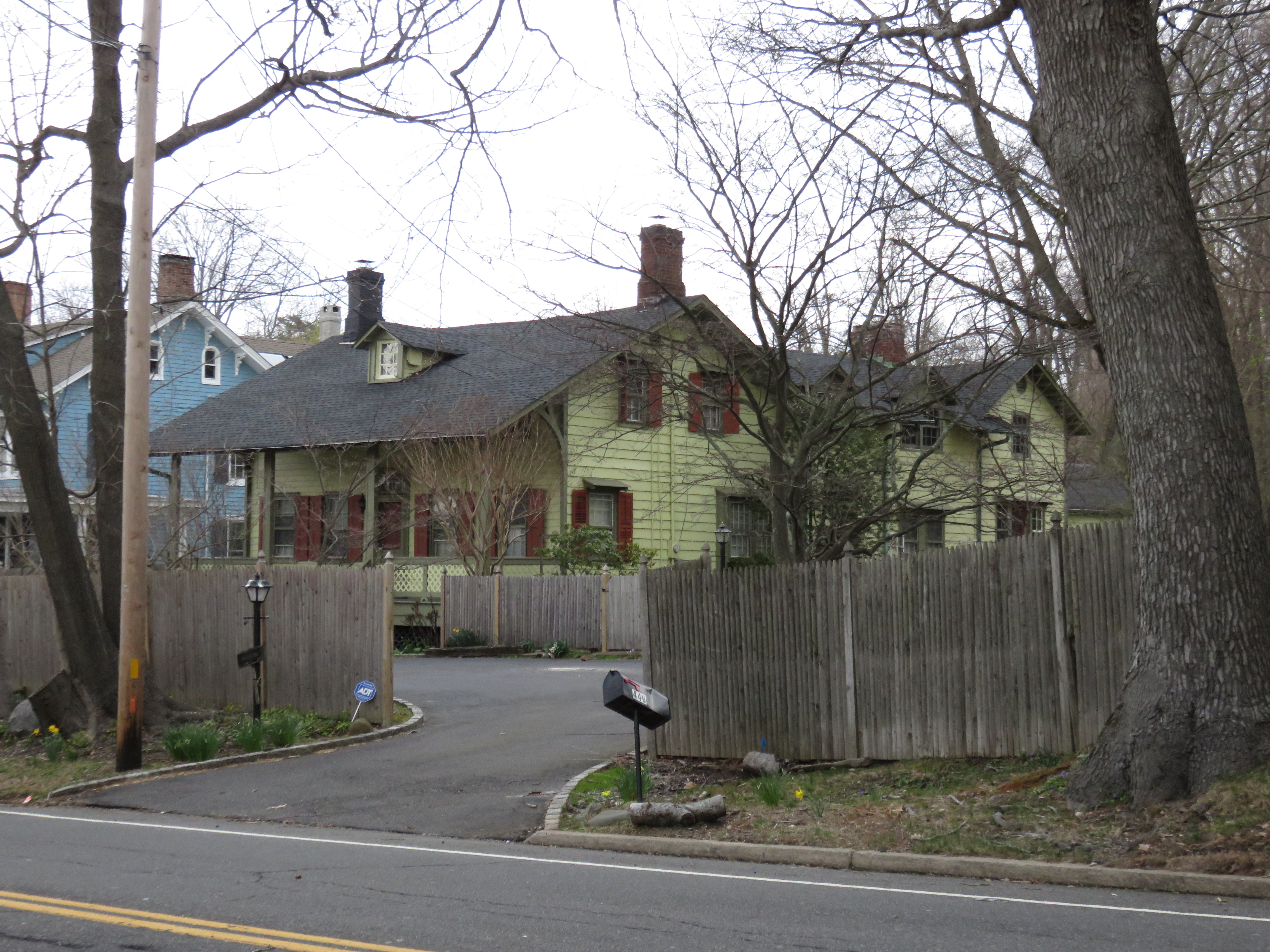 Springbank House in Roslyn Harbor, New York in 2016